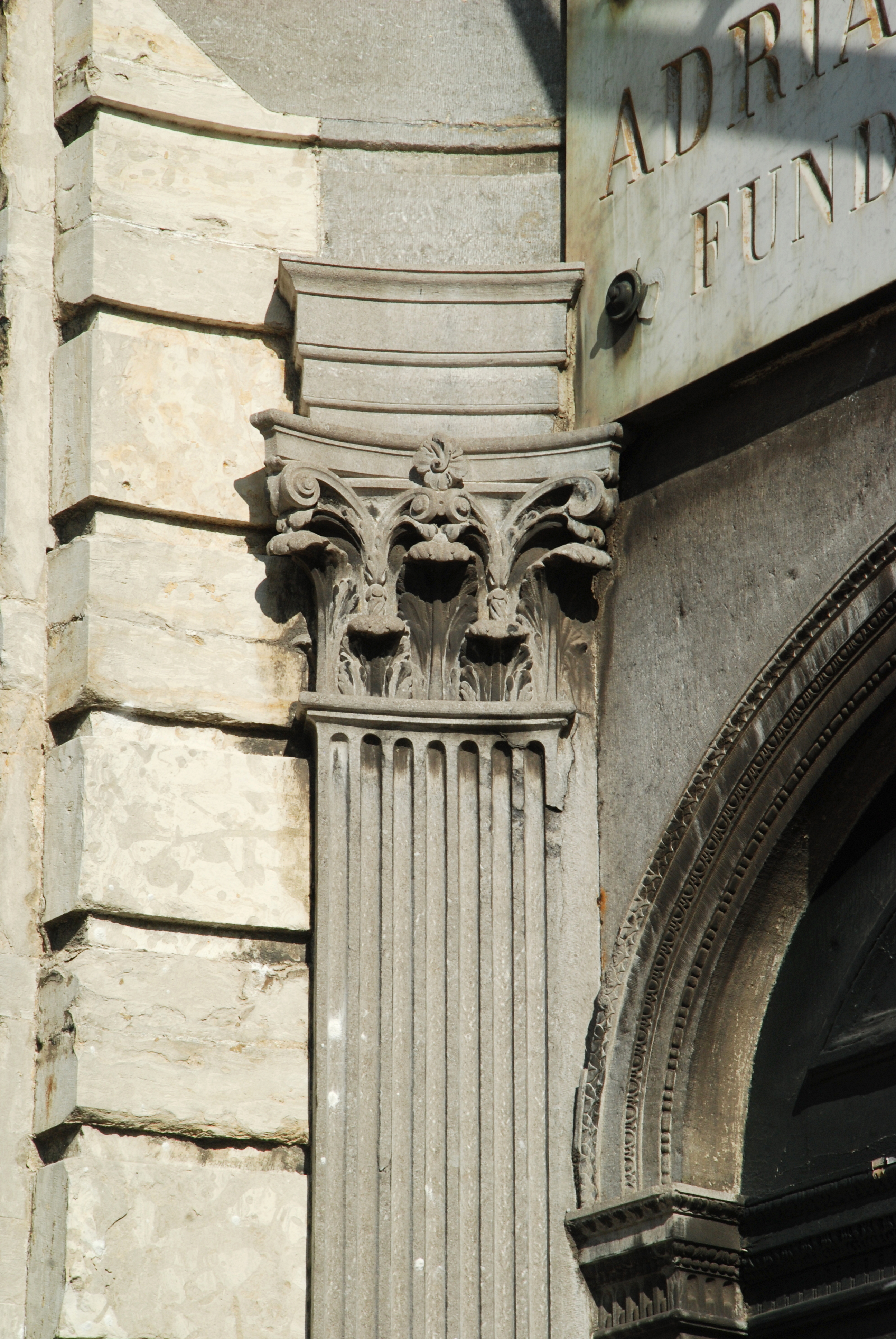 Belgium - Leuven - Pope Adrian VI college